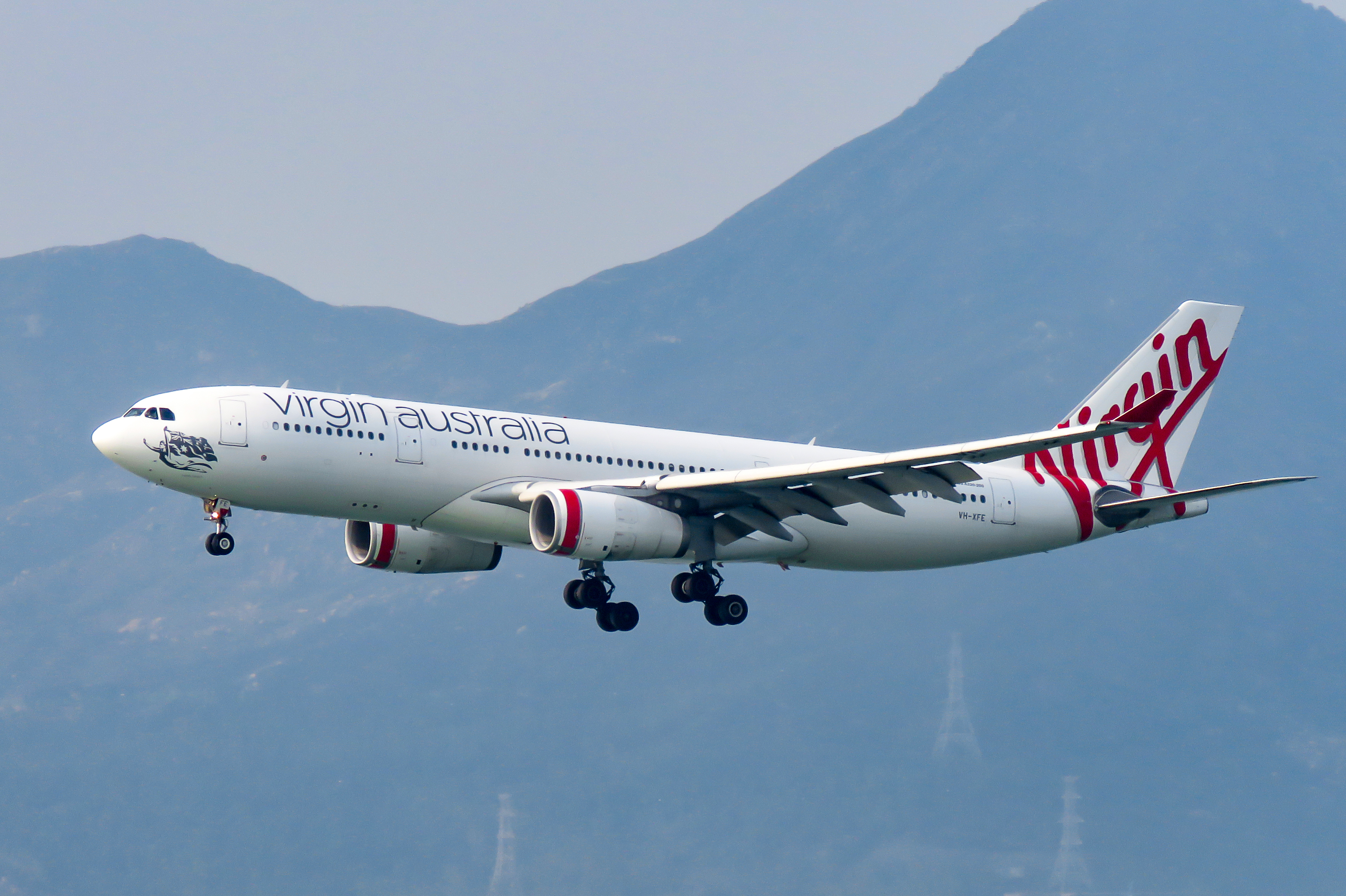 Velocity 83 from Sydney.